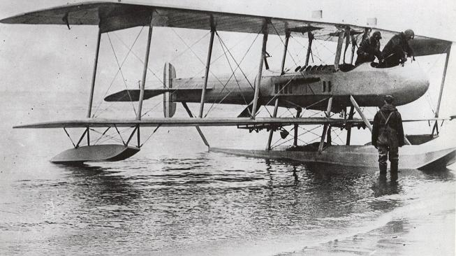 Photo of Gallaudet D-4 Seaplane 1918.jpg